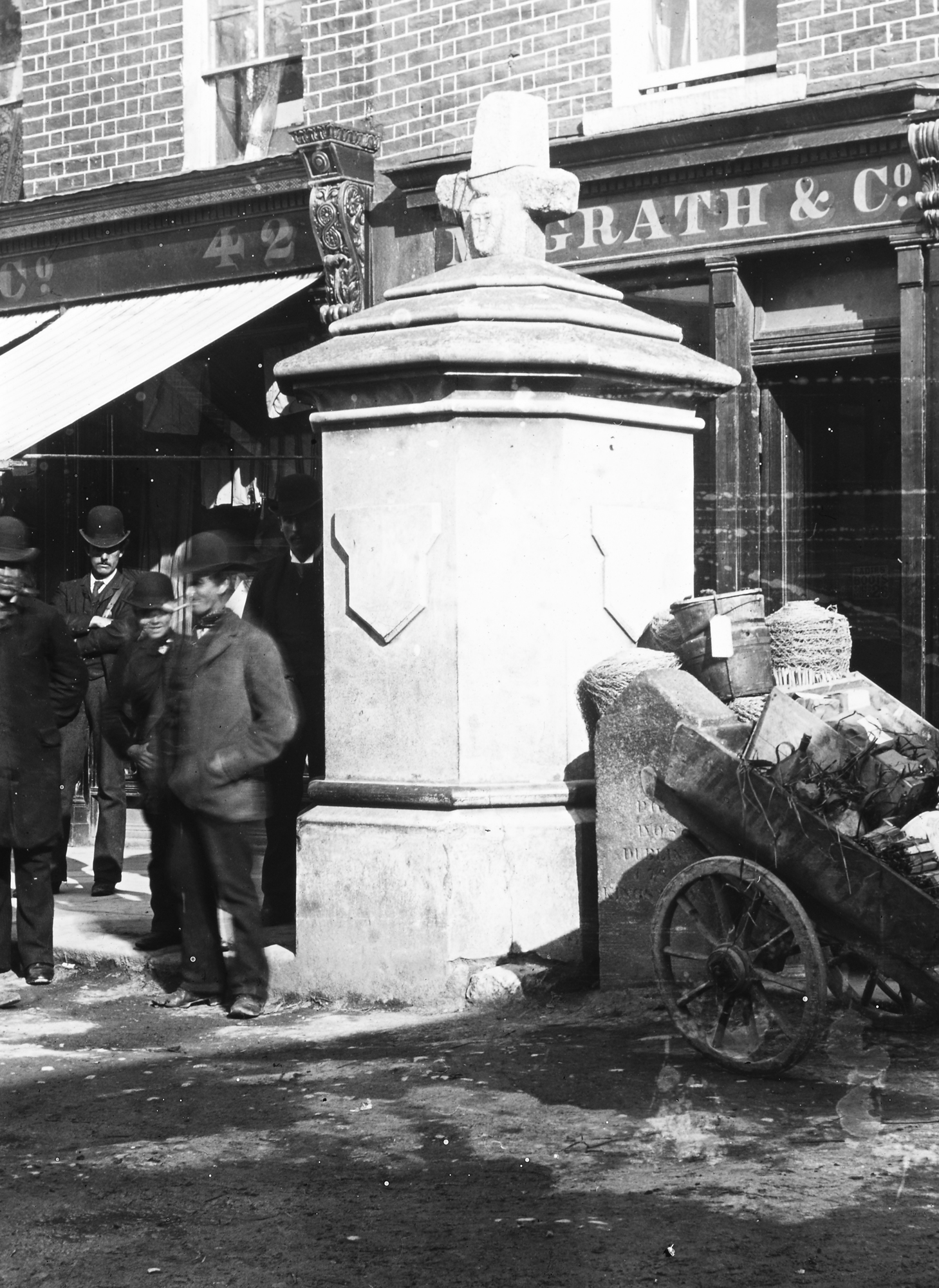 This reminds me of the Spencer Tracy film, "Bad day at Blackrock" so the question is which Blackrock is it. A really nice Mason shot to start this week. [/photos/129555378@N07/ sharon.corbet] Identified the Location as Blackrock Co. Dublin. She tells us that "The cross used to mark the boundary of the city of Dublin: In the centre of the village is a large block of granite, on which are the remains of an ancient cross; to this spot, which is the southern extremity of the city of Dublin, the lord mayor, with the civic authorities, proceeds when perambulating the boundaries of his jurisdiction." Photographer: Thomas H. Mason Collection: The Mason Photographic Collection Date: ca. 1890-1910 NLI Ref: M26/24 You can also view this image, and many thousands of others, on the NLI’s catalogue at